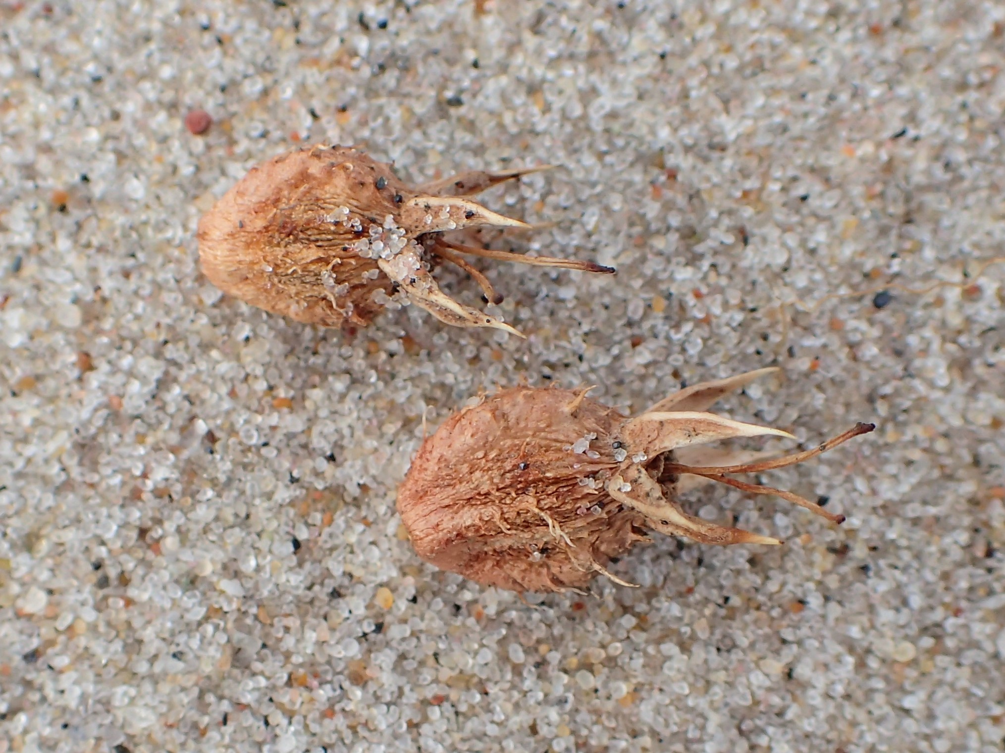 Eryngium maritimum, seeds. Dunes in Mielno on Baltic See, N Poland